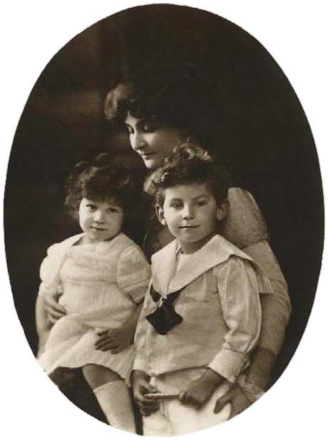 Princess George of Greece (born Marie Bonaparte) with her children, Princess Eugénie and Prince Peter of Greece and Denmark - 1912